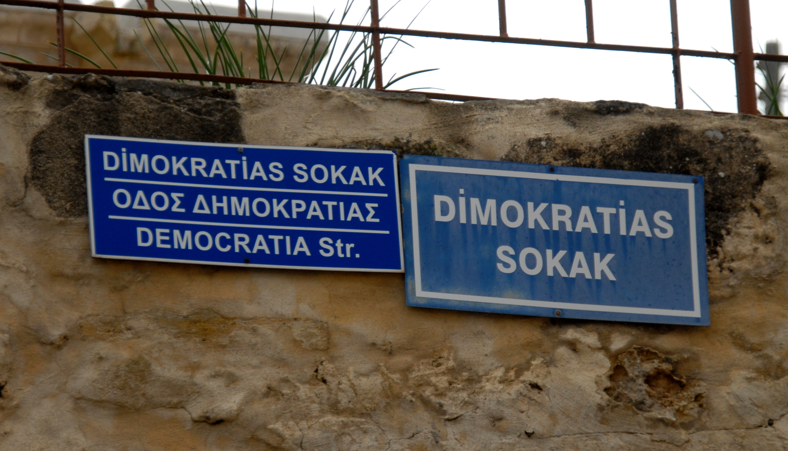 A set of signs in Kormacit village, Cyprus. The sign on the left is trilingual in Greek, English and Turkish, and maintained by the local authority. The sign on the right is only in Turkish and maintained by the state authorities.